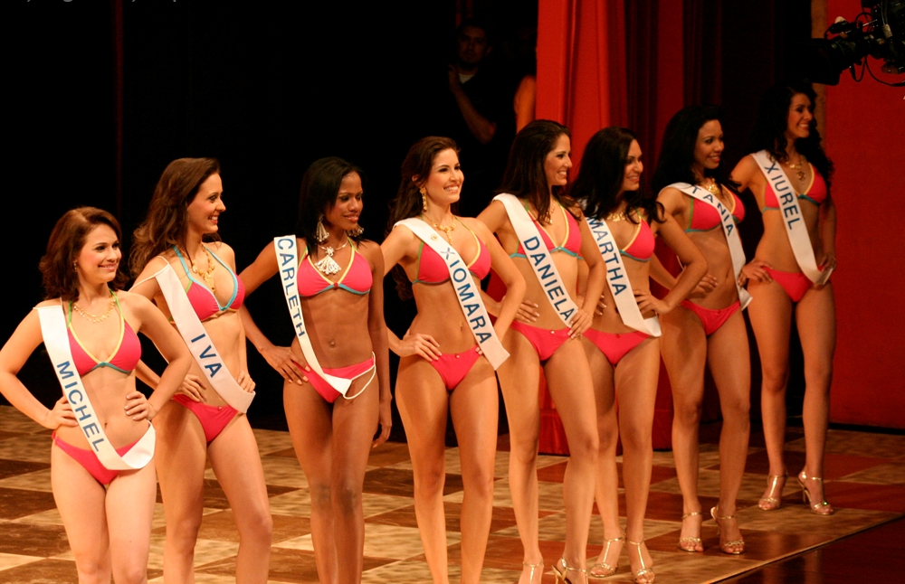 Miss Nicaragua participants in bathing suits.